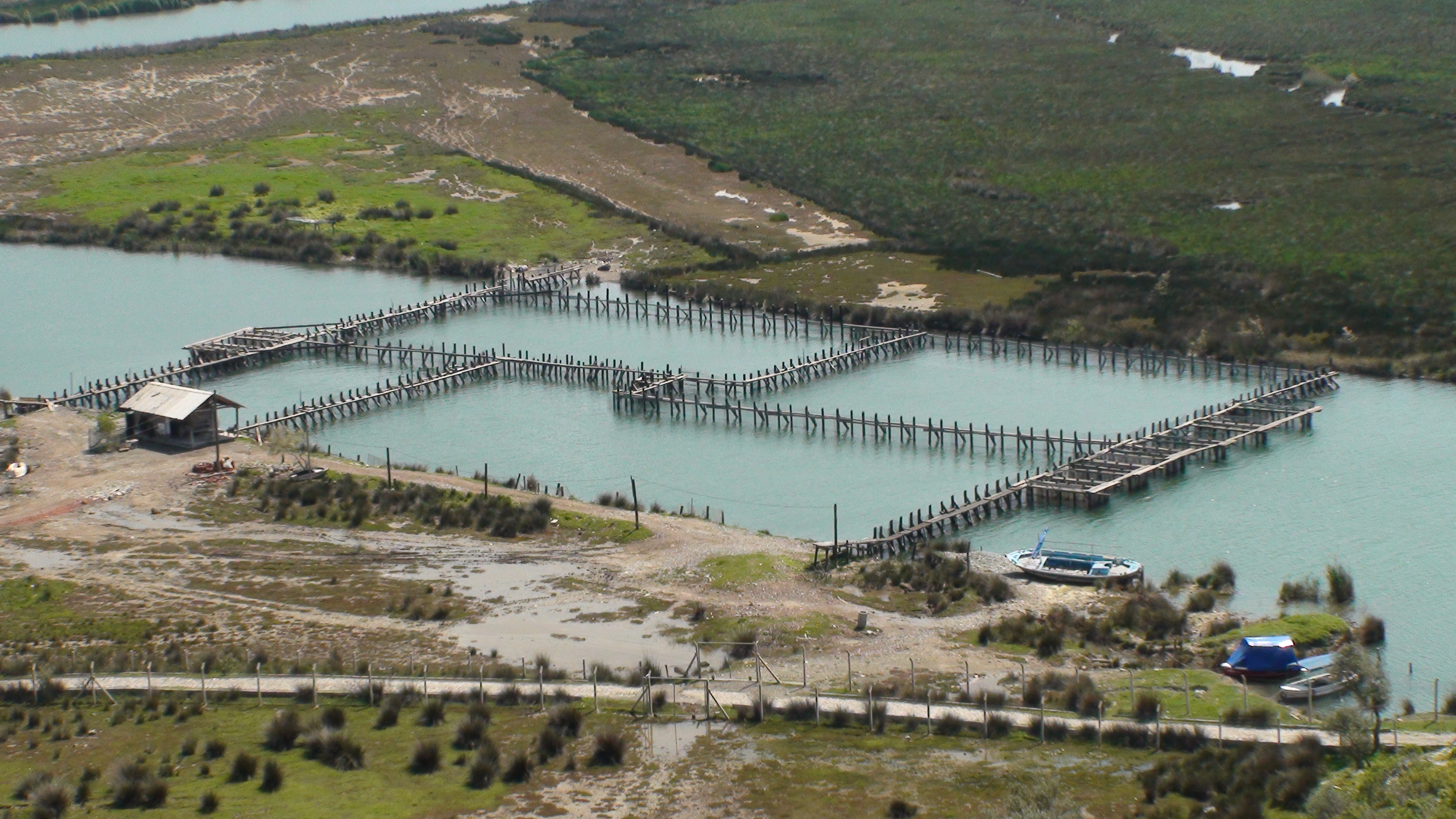 dalyan near jetty of Kaunos